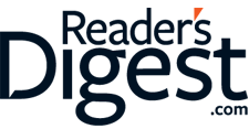 PNG Version